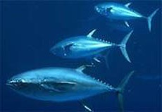 Atlantic bluefin tuna, Thunnus thynnus